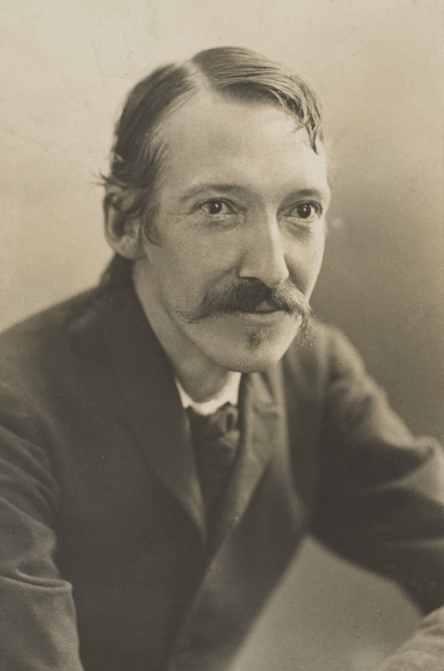 Photograph of Robert Louis Stevenson